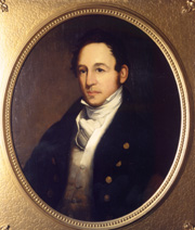 Stevenson Archer, US Representative from Maryland